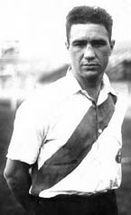 Argentine striker Carlos Peucelle during his tenure on River Plate.